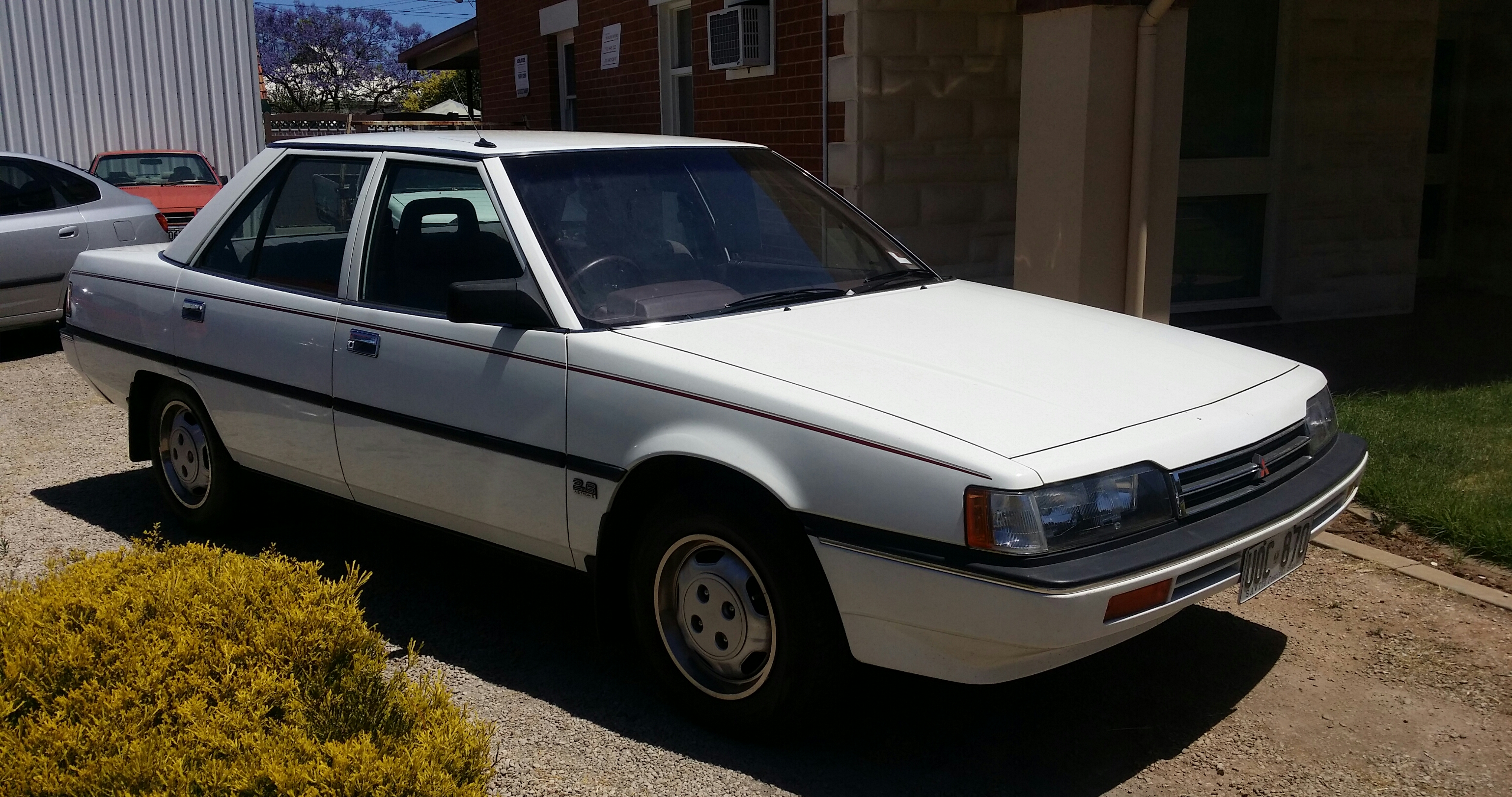 I've driven past this little obscure second hand car yard on a number of occasions, so I thought I'd stop in and take a peak on what they had. Their stock only changes every 6 months, if that, not that they actually have many cars in stock to start off with and I came across a few examples that I don't get to see on the roads much anymore.